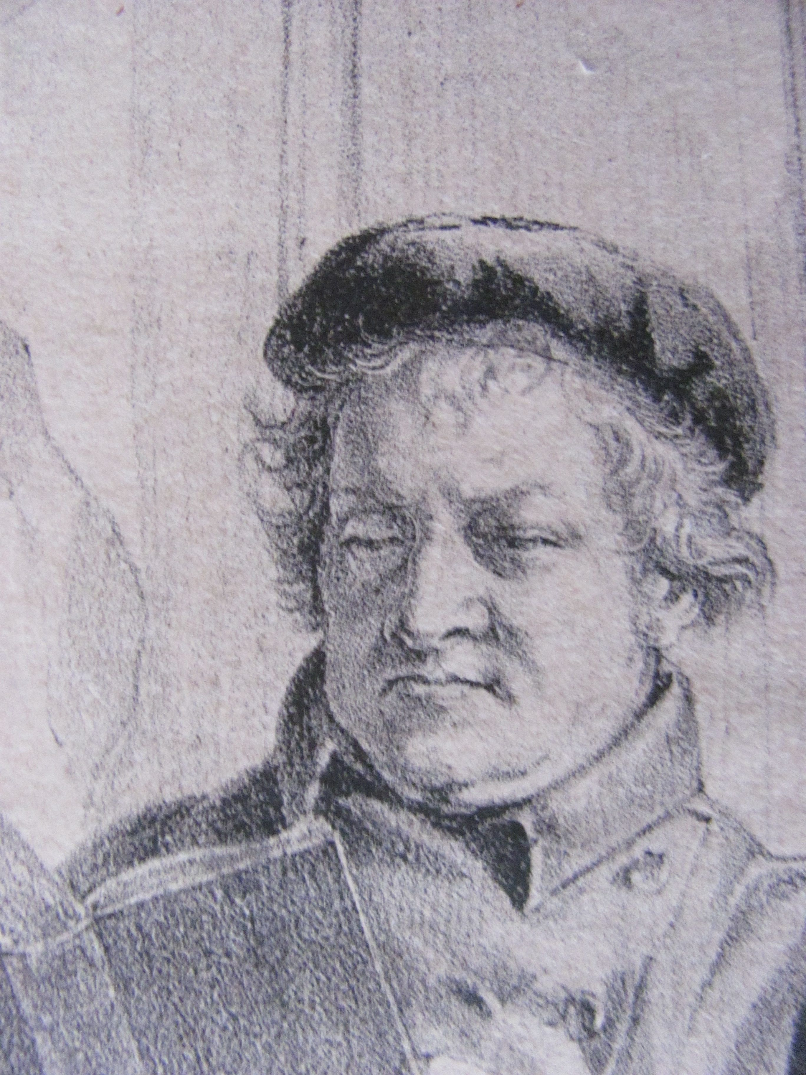 Julius Eugen Ruhl, self portrait (detail)